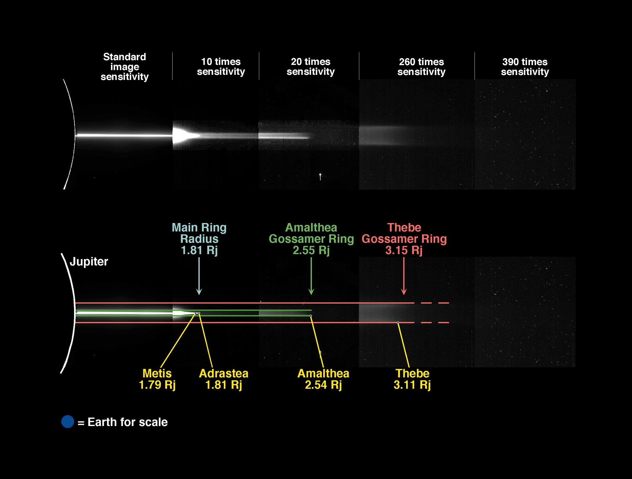 Mosaic of Galileo images of the jovian rings with an explanatory scheme. Category:Jupiter